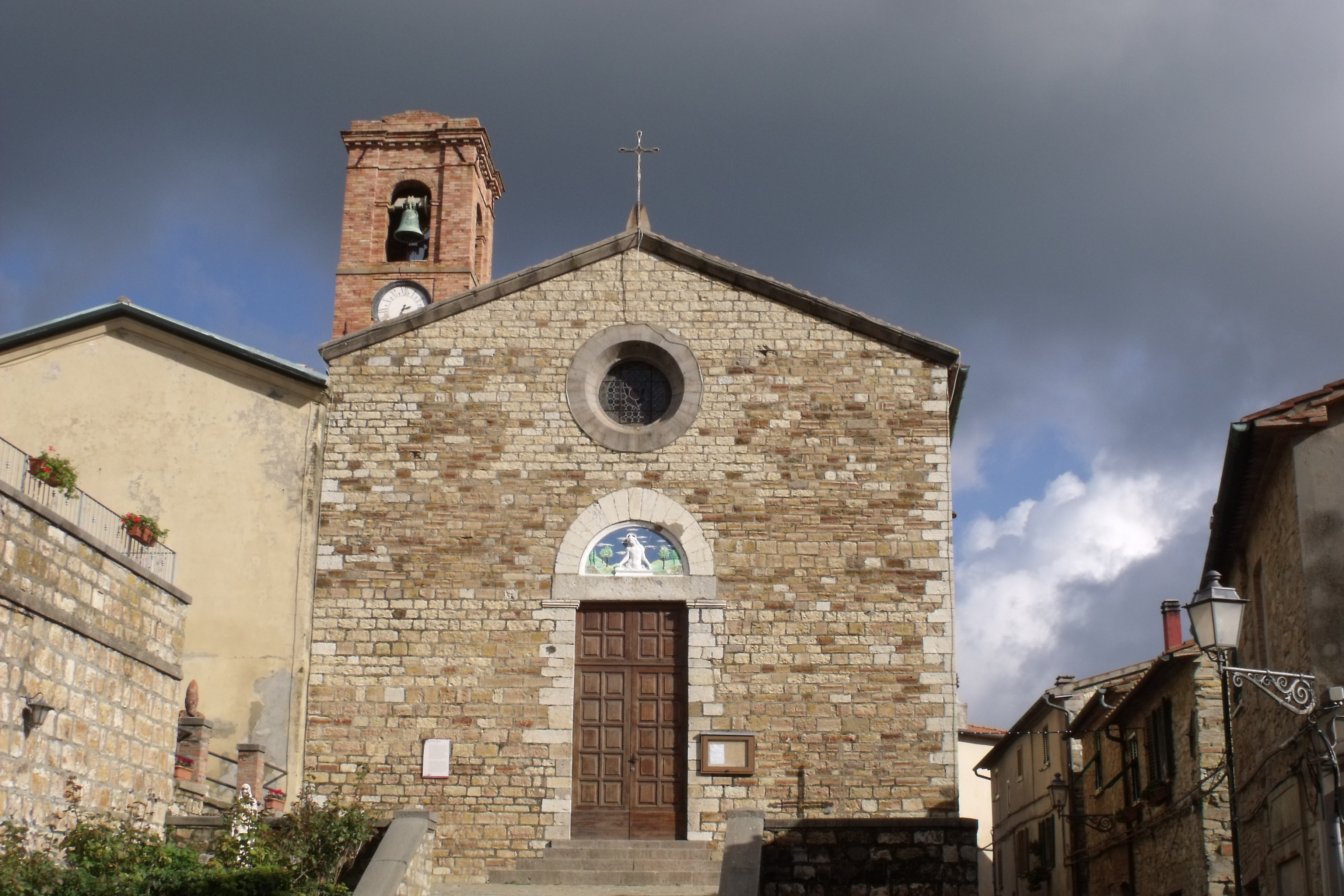 Church Chiesa di Sant’Andrea in the center of Monteverdi Marittimo, Province of Pisa, Tuscany, Italy